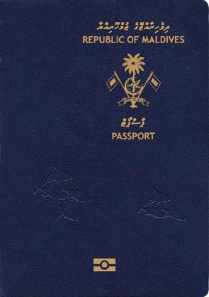 Maldives biometric passport.